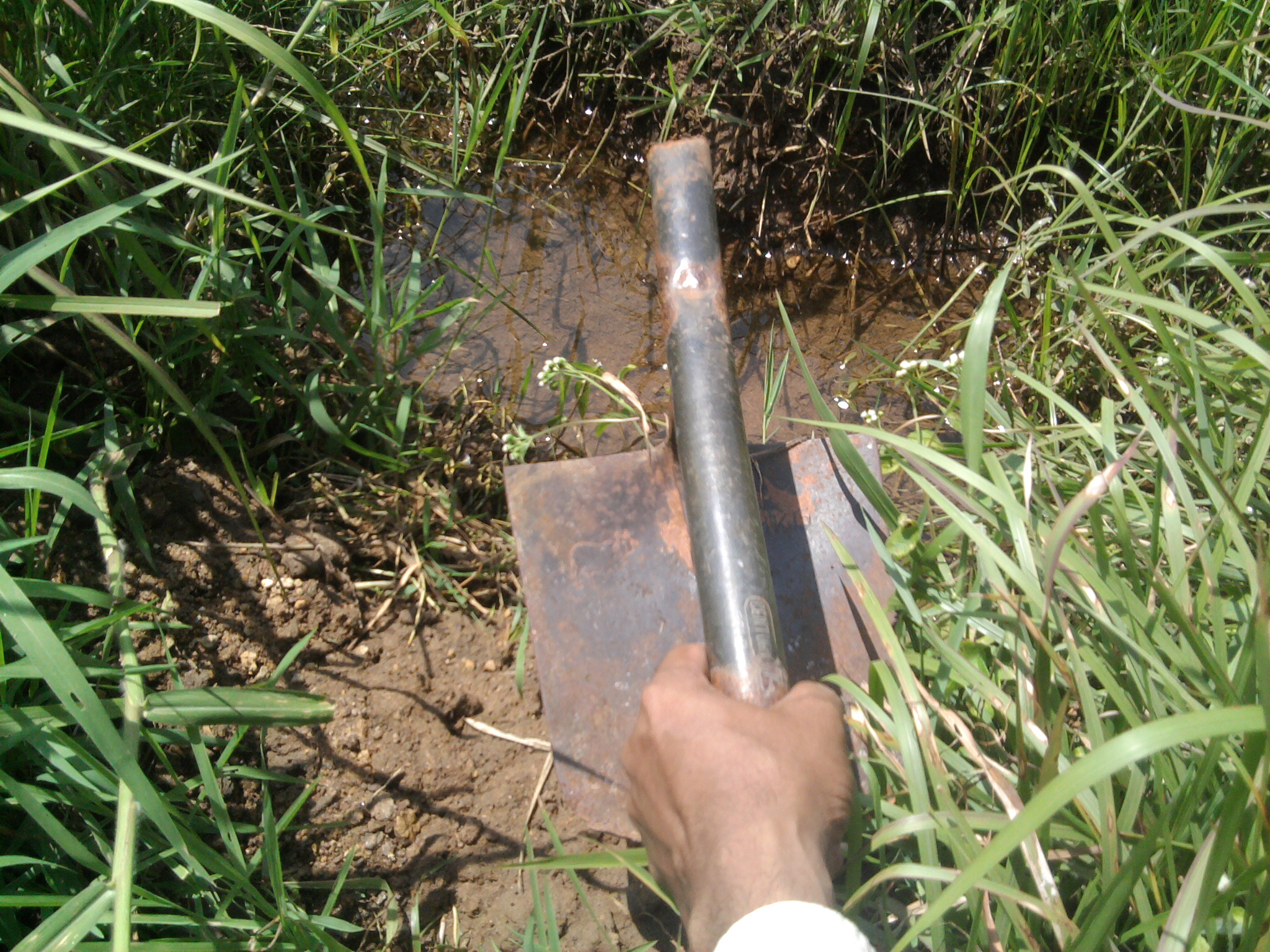 Garden tool Chalagapara